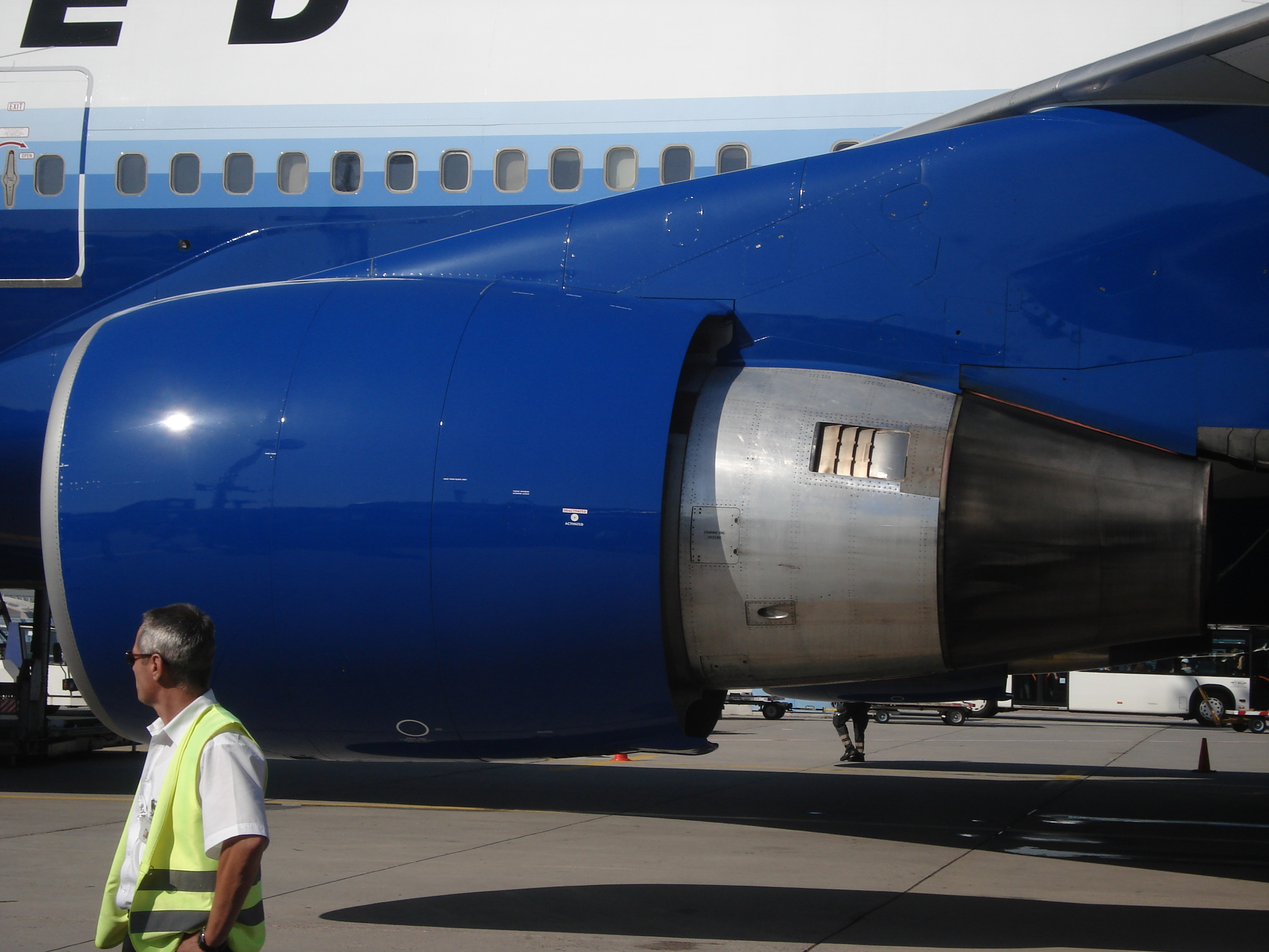 PW4060| engine mounted on a United 747 at Frankfurt Airport